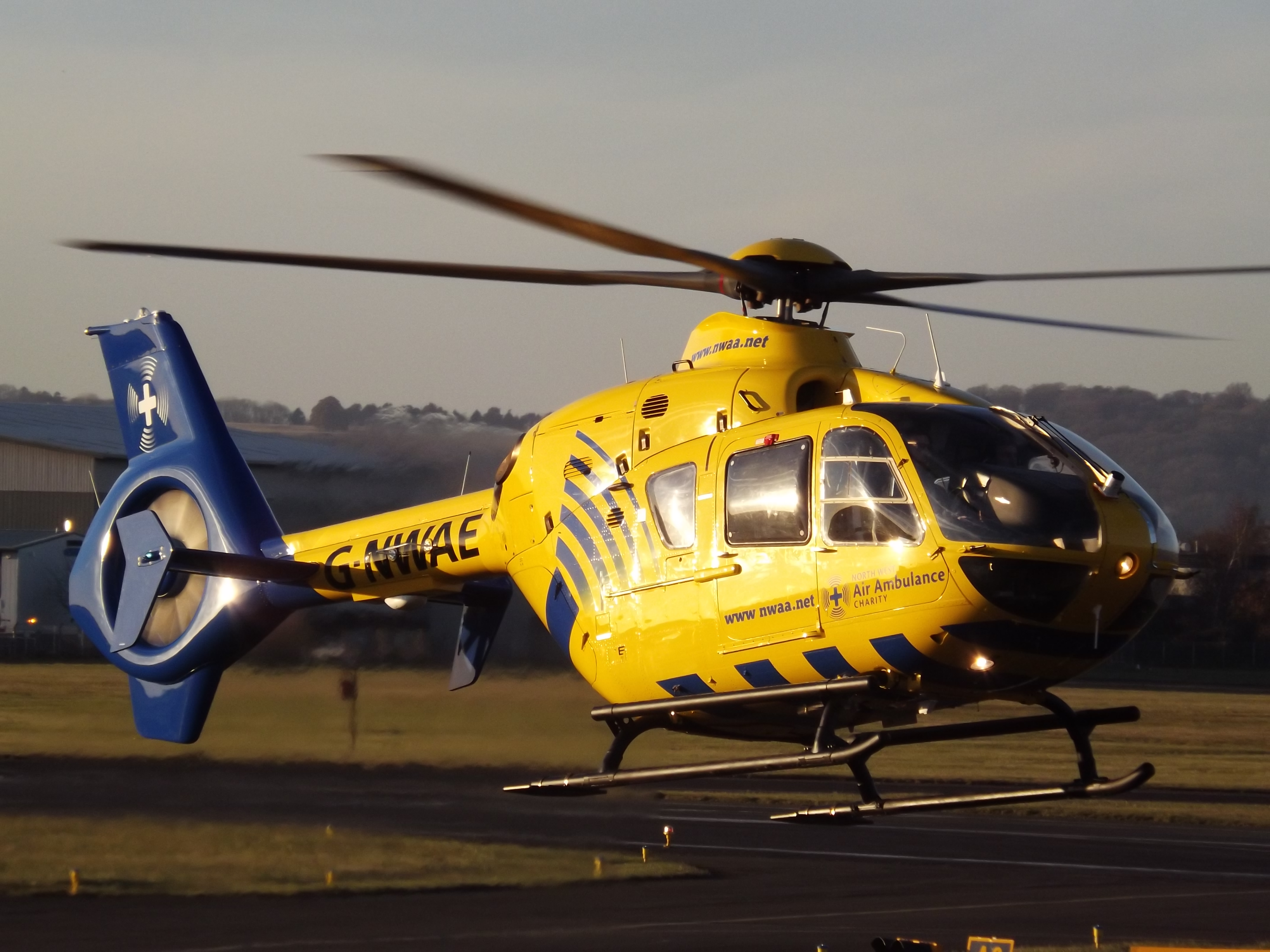 G-NWAE Eurocopter EC135 Helicopter Babcock Mission Critical Services Onshore Ltd